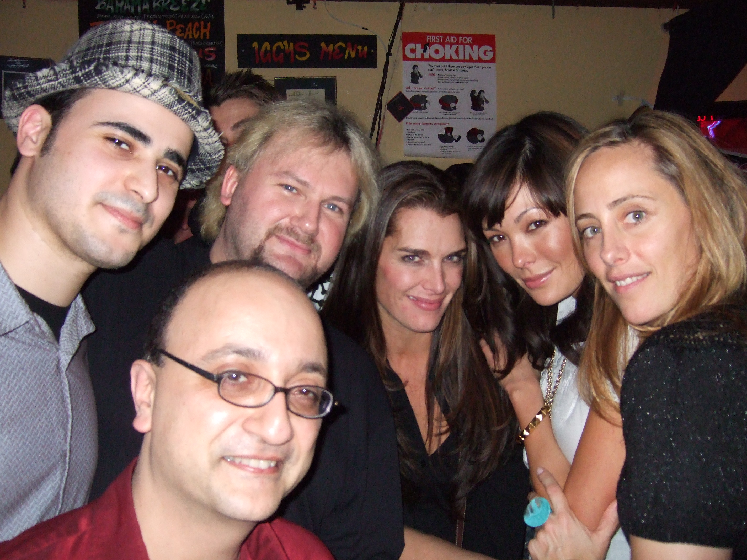 Thaler with Brooke Shields, Kim Raver, Lindsey Price and PGS members on the set of NBC's Lipstick Jungle.